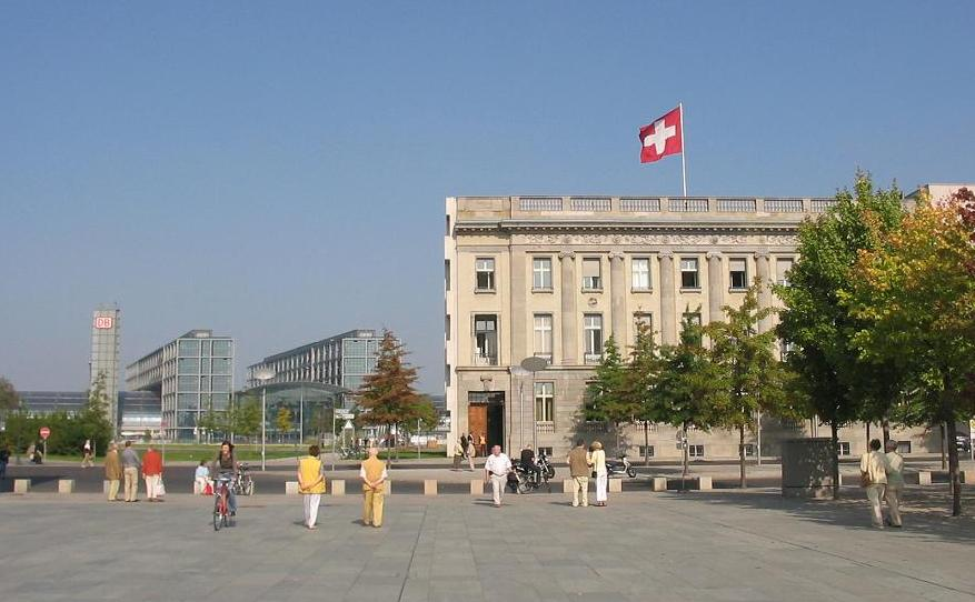 Swiss Embassy Berlin. The building is situated in the new German government-district in Berlin-Tiergarten nearby the Bundeskanzleramt (German Chancellery) and the new Berlin Hauptbahnhof (German for Berlin main station). It was built in 1870/71 by the German architect Friedrich Hitzig for a private person.